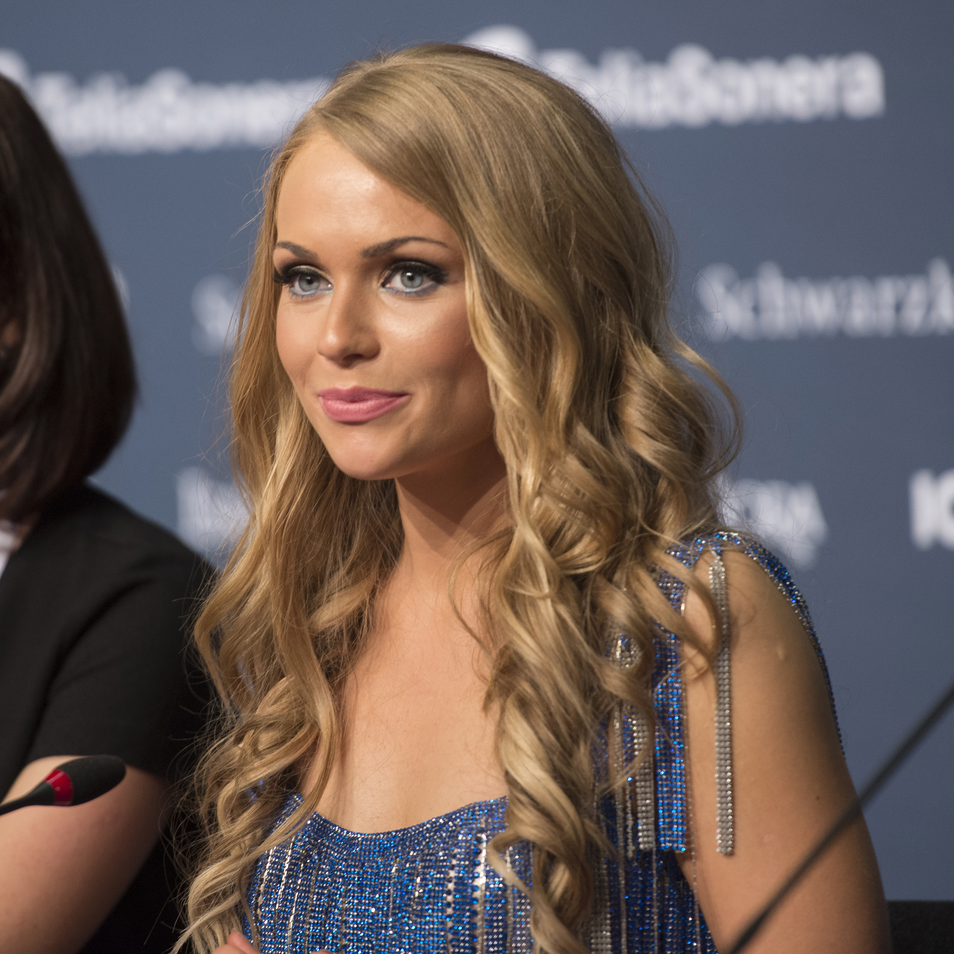 Alyona Lanskaya at a press conference during the Eurovision Song Contest 2013 in Malmö. (Help translate this text)